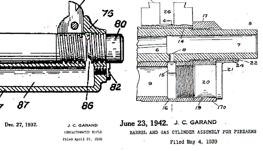 Taken off of world guns, patent image United States patent applications are ineligible for copyright protection. --Carnildo 23:22, 23 November 2005 (UTC)